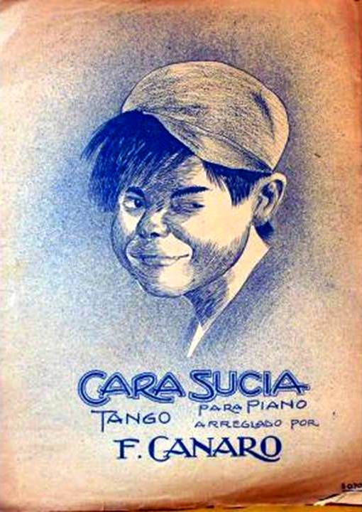 Cover of the sheet music of Cara sucia, tango composed by Casimiro Alcorta and arranged by Francisco Canaro in 1916.